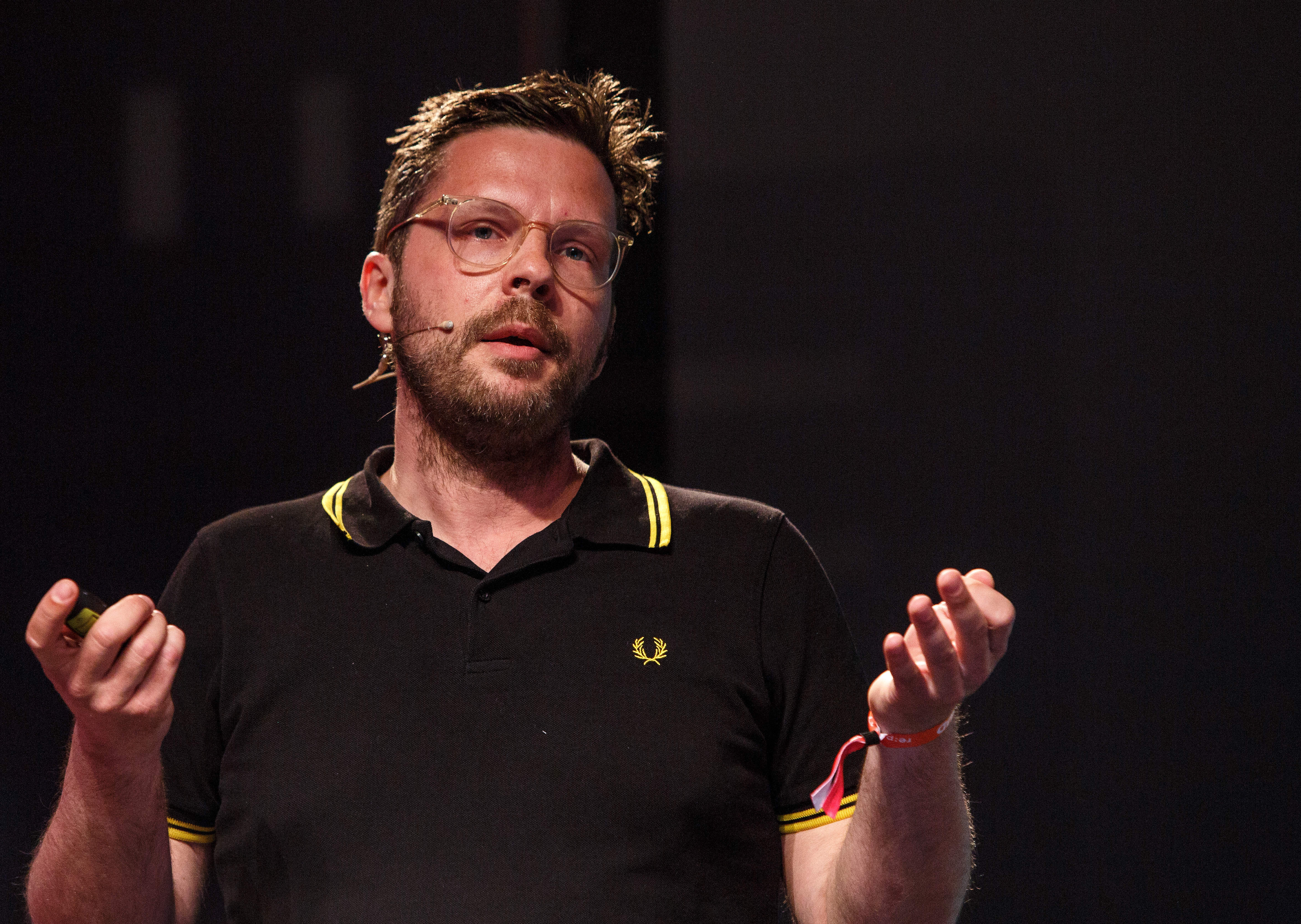 Gerald Hensel am 09.05.2017 mit "Stop Hatevertising" auf der re:publica (#rp17) in Berlin. Foto: re:publica/Jan Zappner